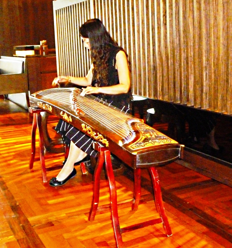 A woman playing the guzheng in Taipei in 2012.